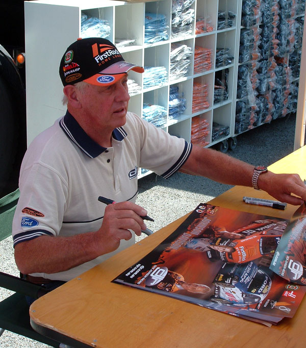 Dick Johnson signing autographs for fans.